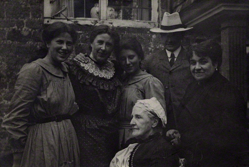 This matte bromide print on card was given by Barbara Strachey to the National Portrait Gallery in 1999. From left: Lady Henry Somerset, Hannah Whitall Smith, Mary Berenson, Logan Pearsall Smith, Karin Stephen & Ray Strachay